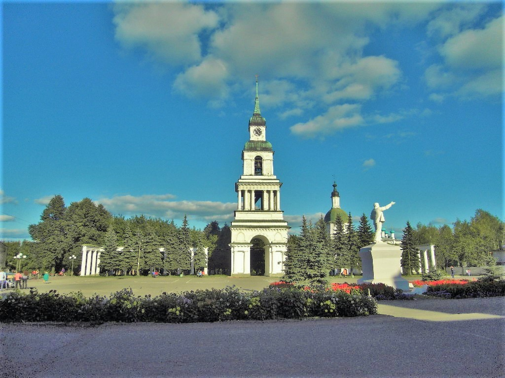 Belltower of the Savior Transfiguration Cathedral in Slobodskoy